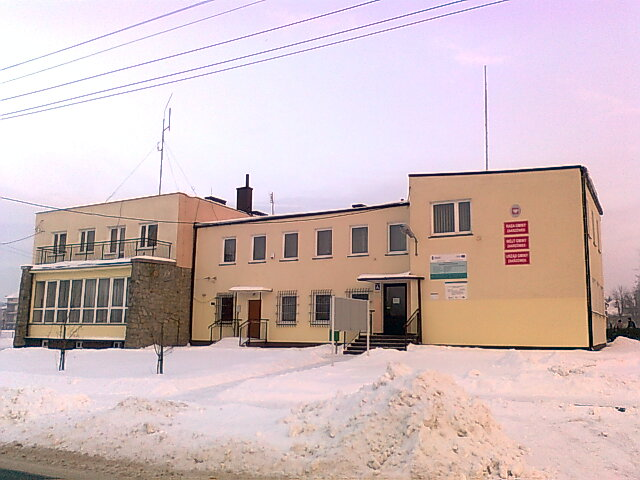 Municipal office in Zakrzówek (January 2013)